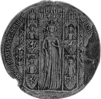 Queen Blanche of Sweden and Norway as depicted on her royal seal